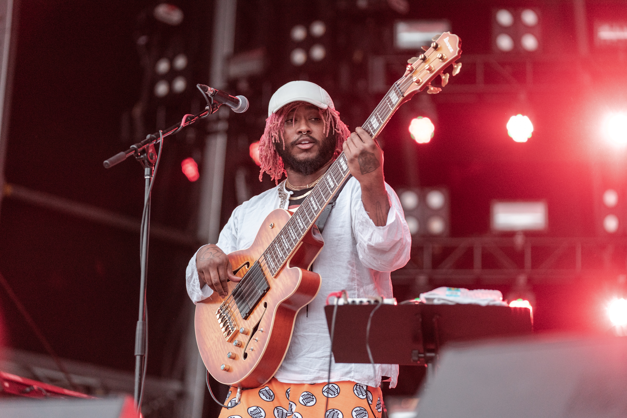 Thundercat